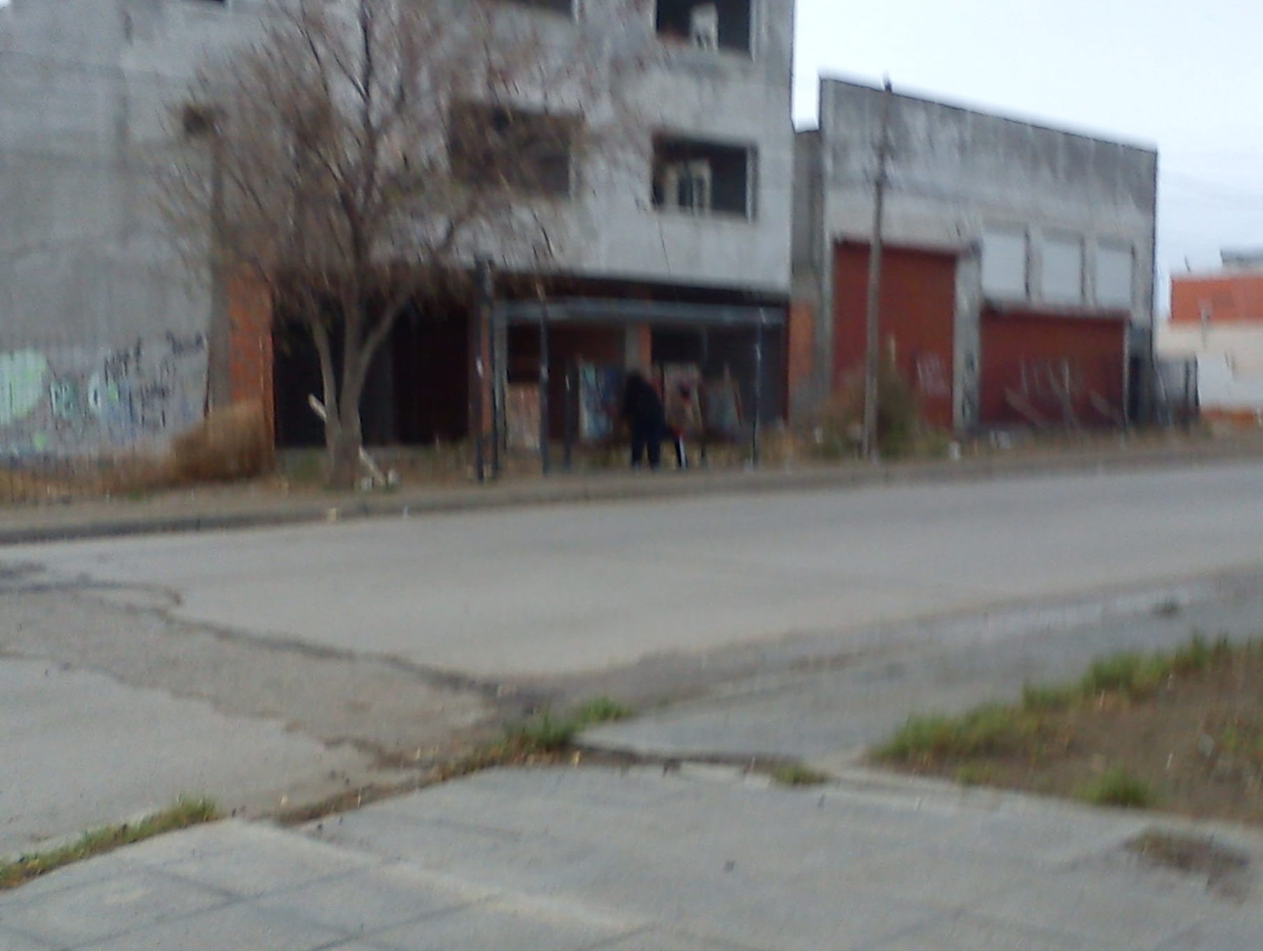 Parada de Autobuses Caleta Olivia